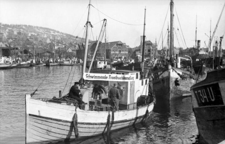 Information added by Wikimedia users.Part of the same roll of film as #02, #05, #15, #20, #21, #25A, #28A, #29A. #05 is easily identifiable as being taken in Tromsø, which makes it highly likely that the rest of the roll was taken there too.